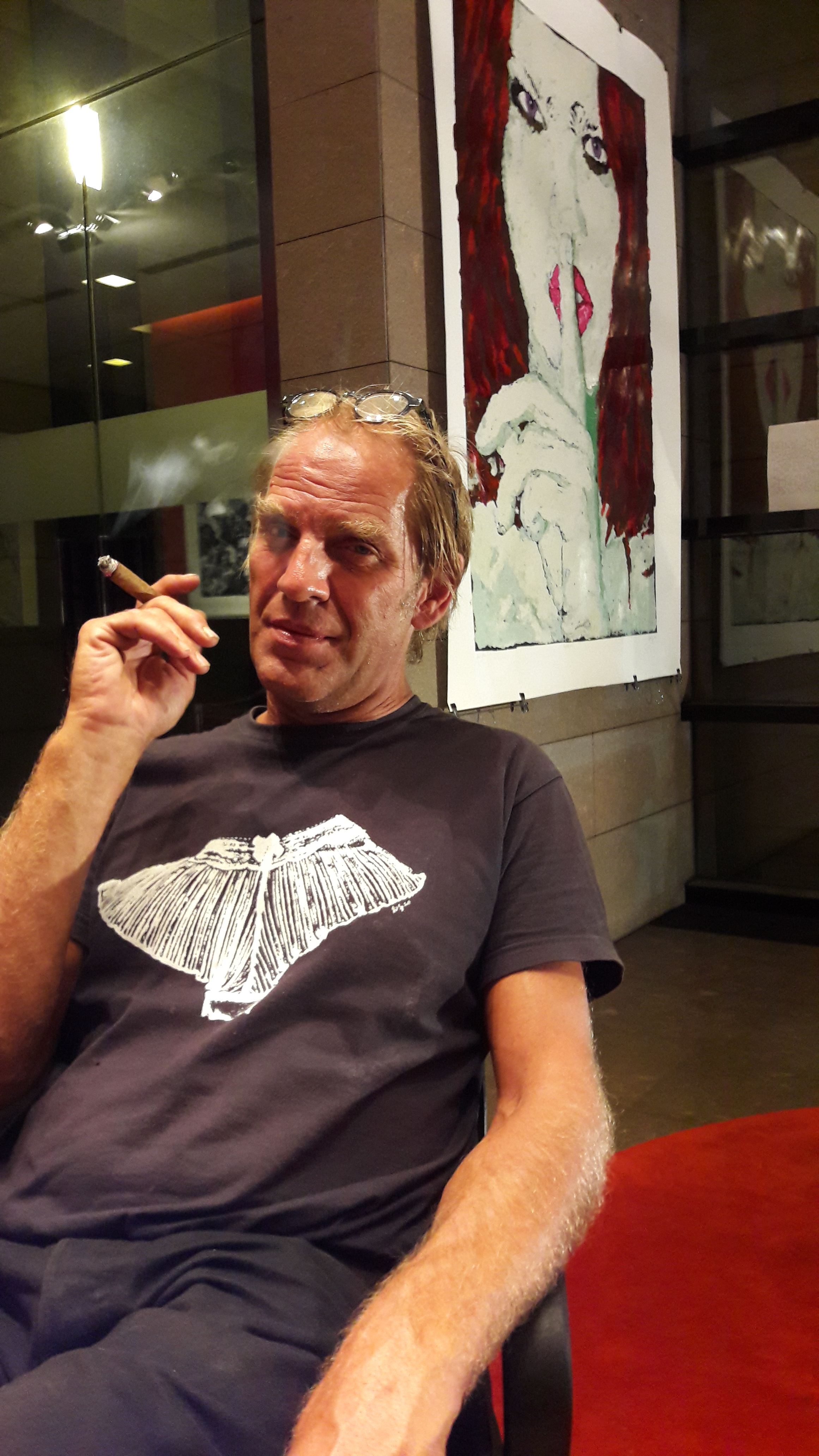 The artist Rafael Springer 2017 in front of one of his works